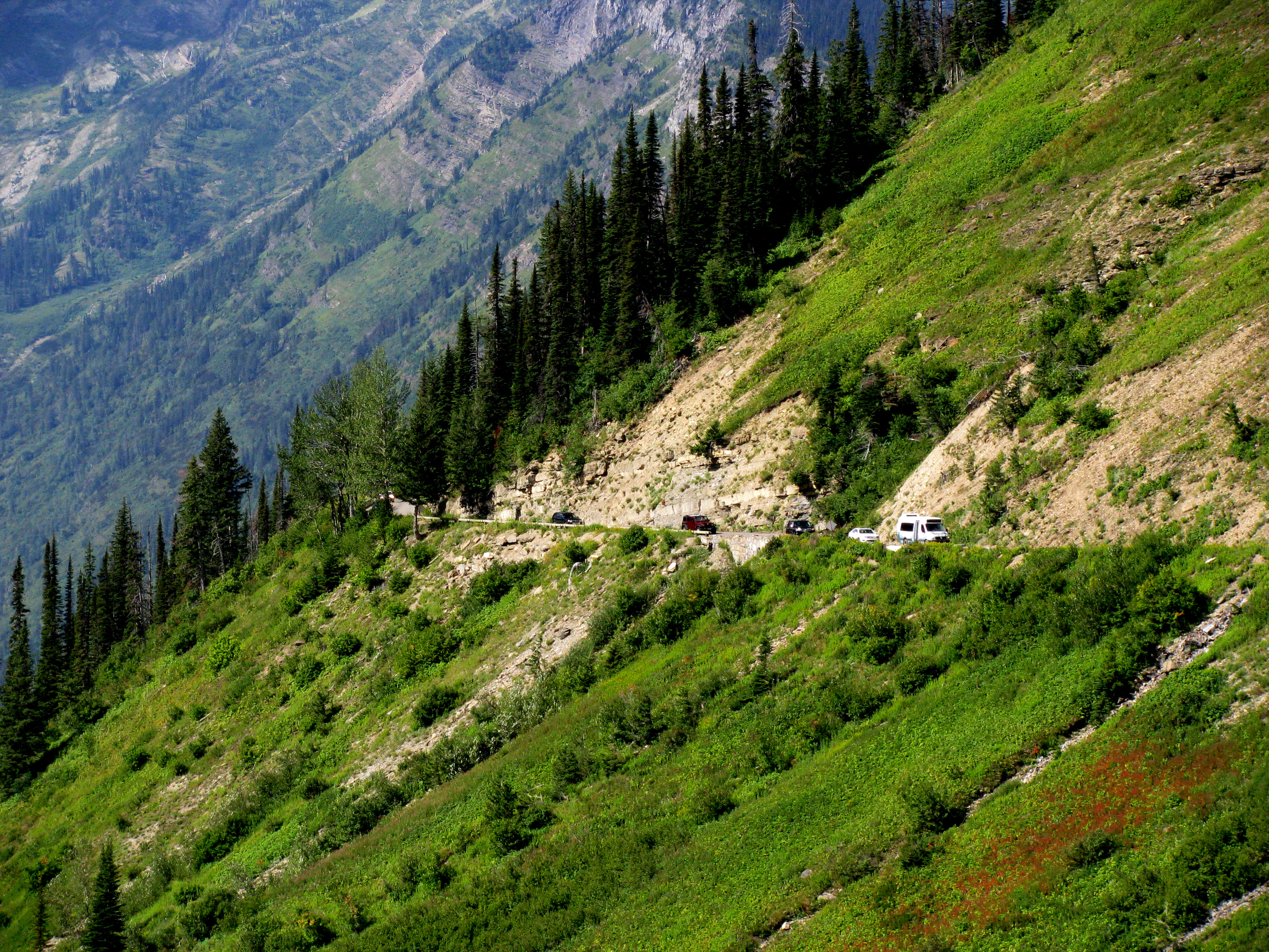 going to sun road in glacier national park